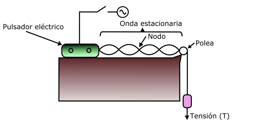 Melde's experiment, spanish version to spanish wikipedia